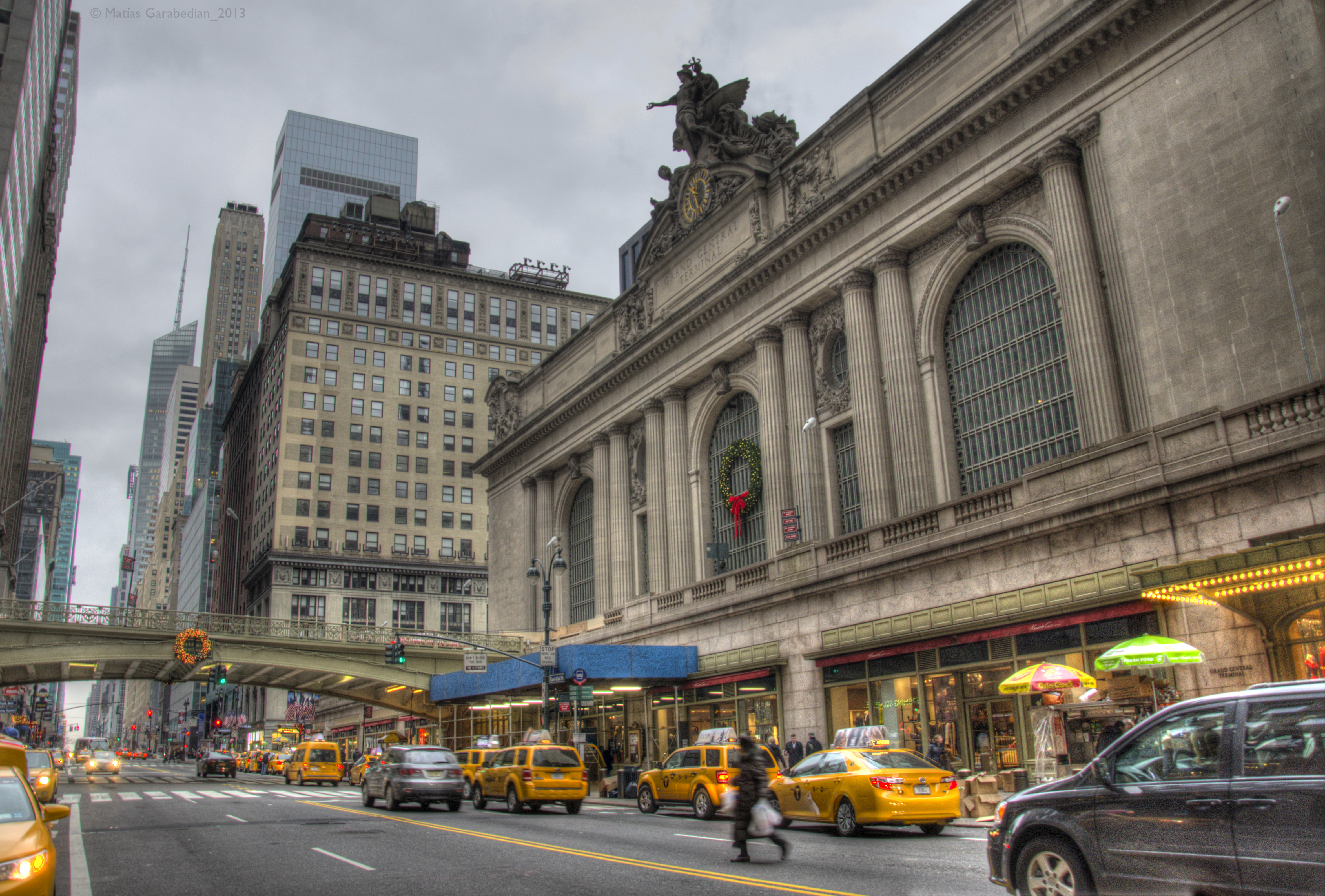 Grand Central Terminal